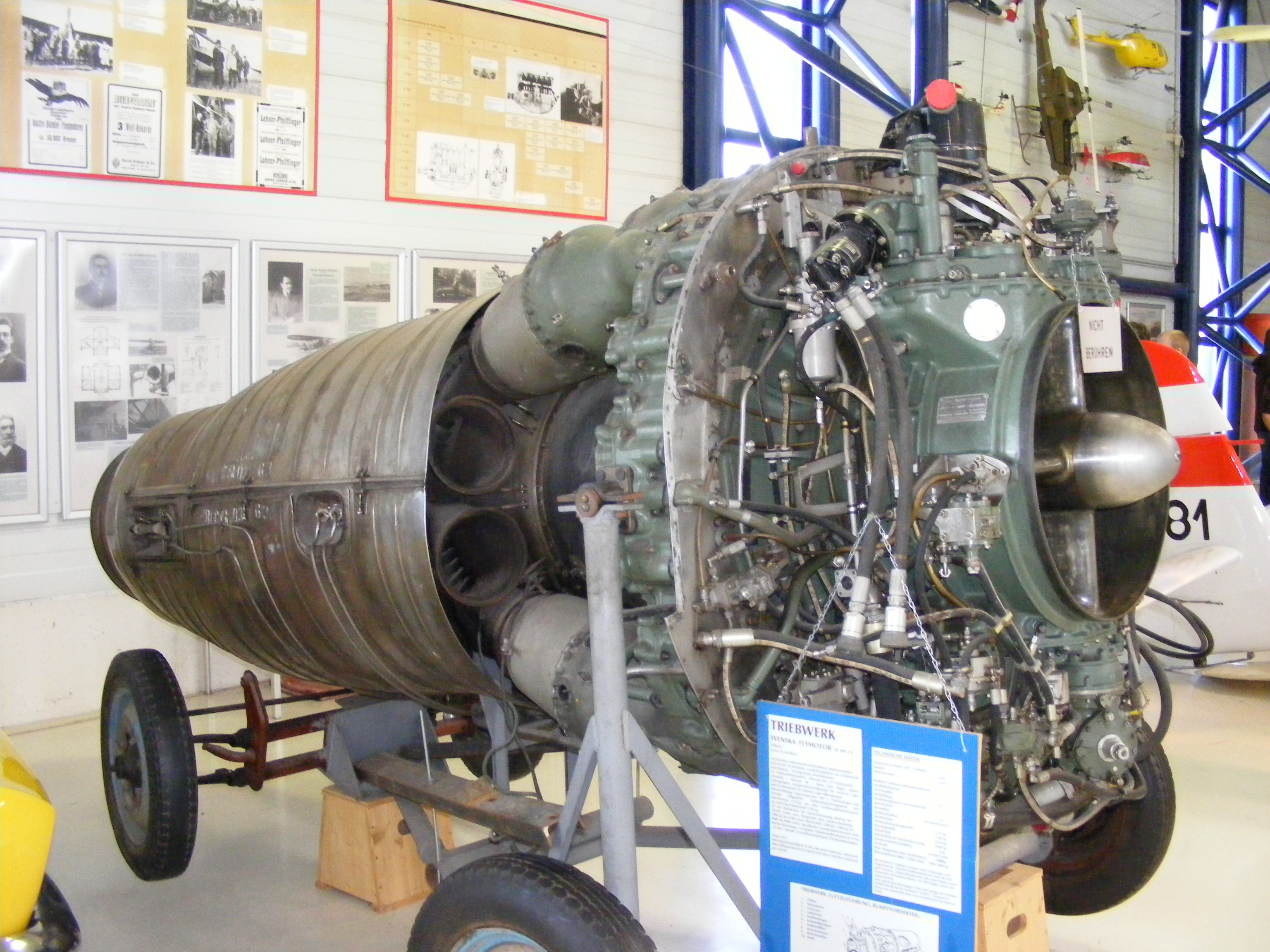 Svenska Flymotoer AB RM 2B at aviaticum museum, Austria